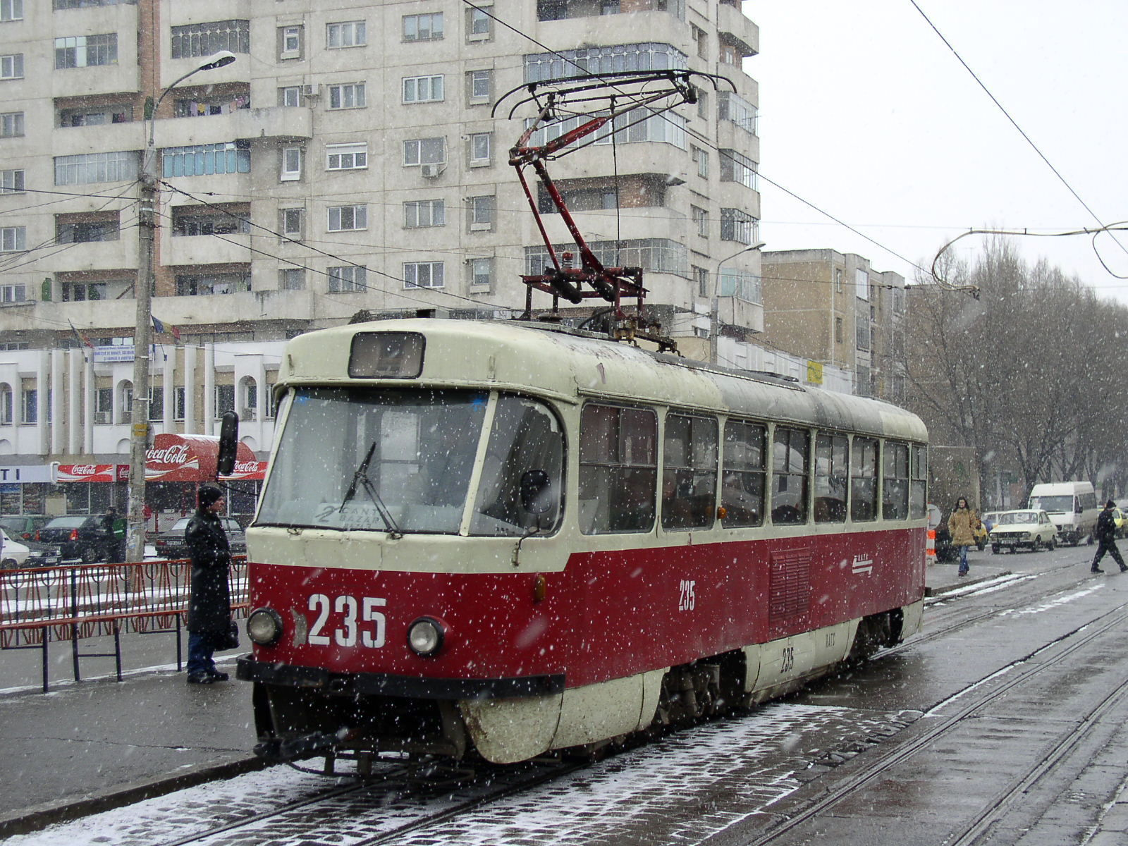 Iași tram 235, a Tatra T4R built new for the Iași system in 1977, eastbound at the Stația Gara (railway station) stop, in service on line 2-barat ("2-slash" in American English) to Baza III.